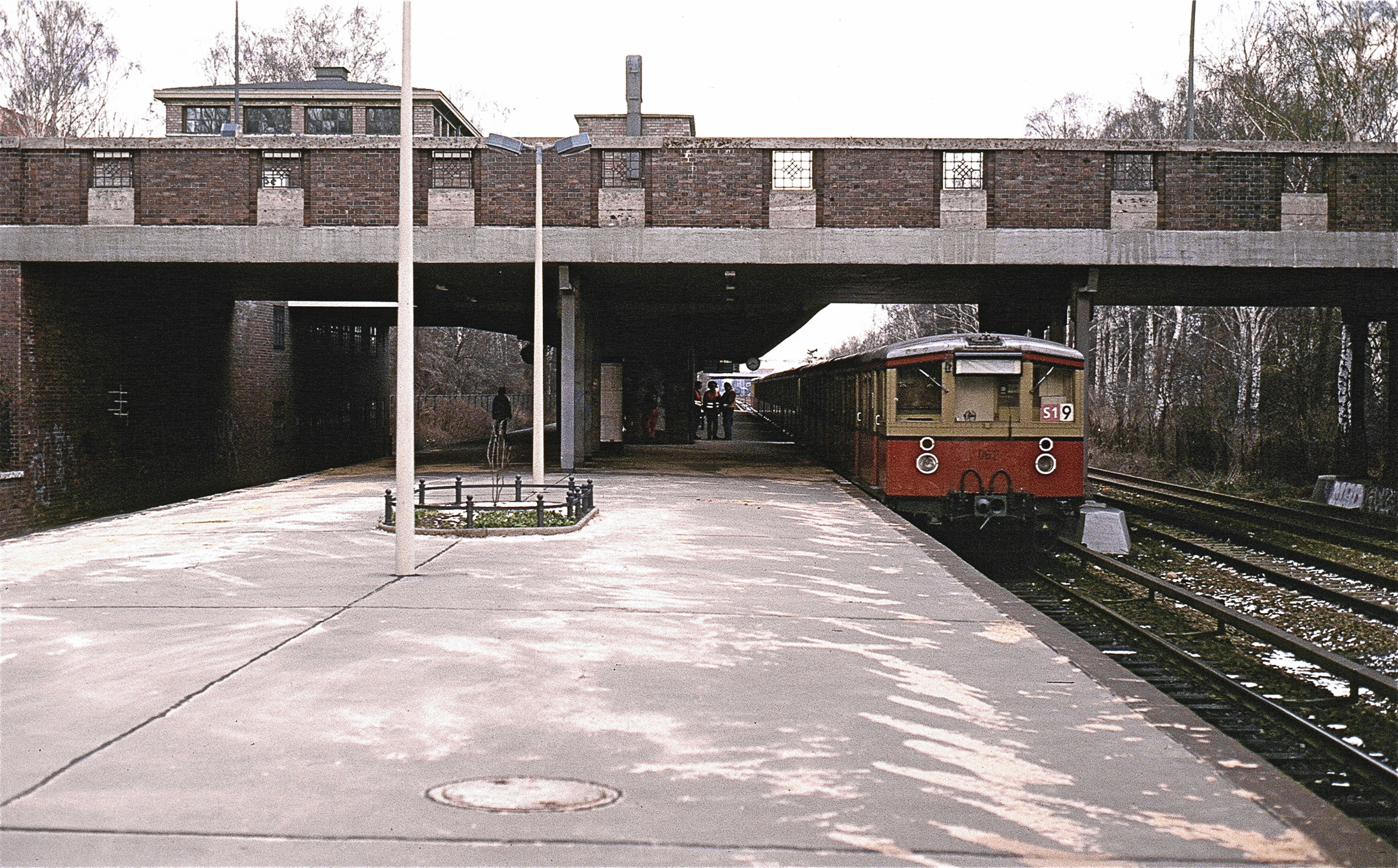 Class ET 165 (BVG) at Berlin Sundgauer Straße